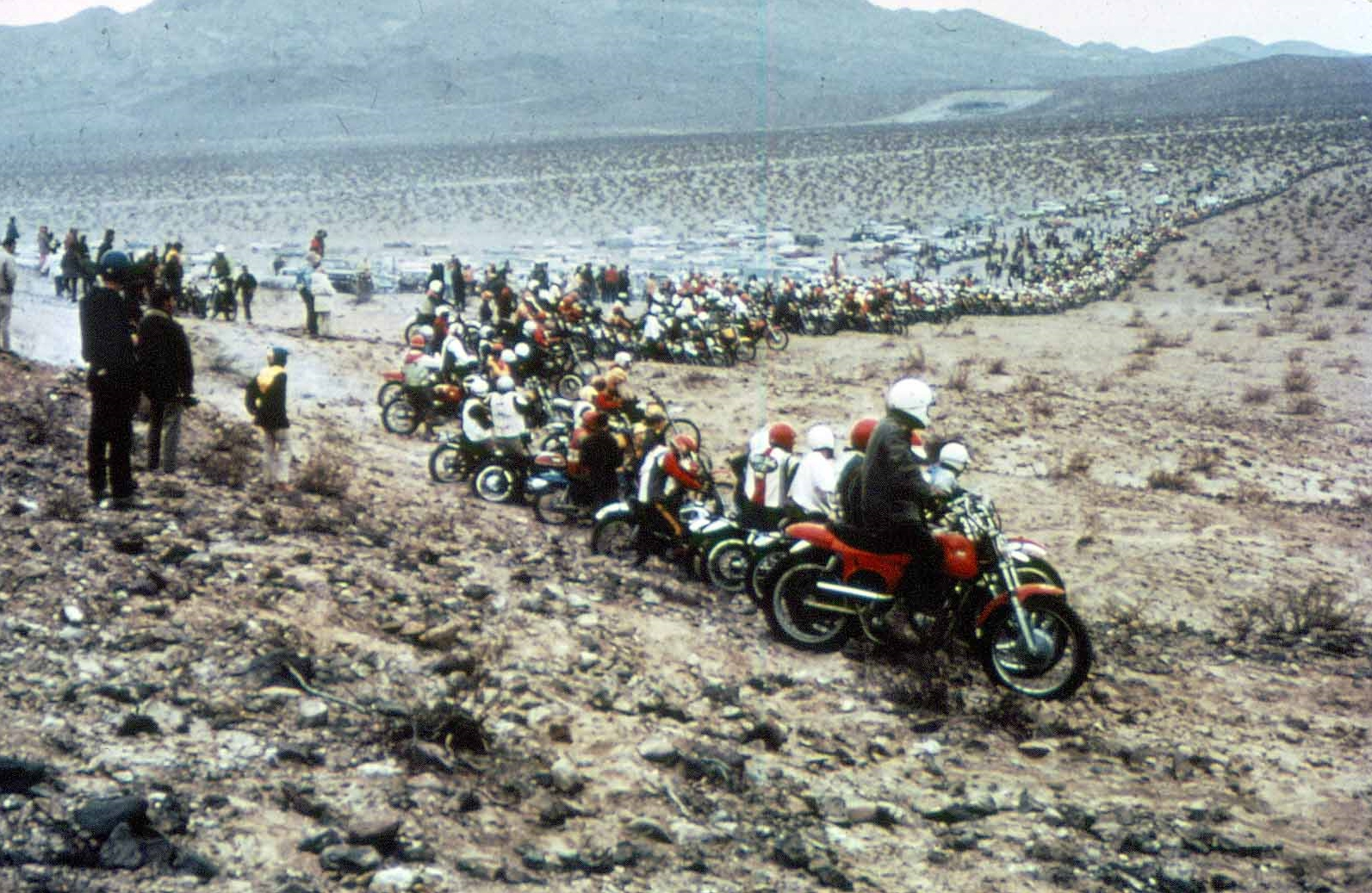 Habitat destruction, Grasslands, March 1963. CDFW file photo.